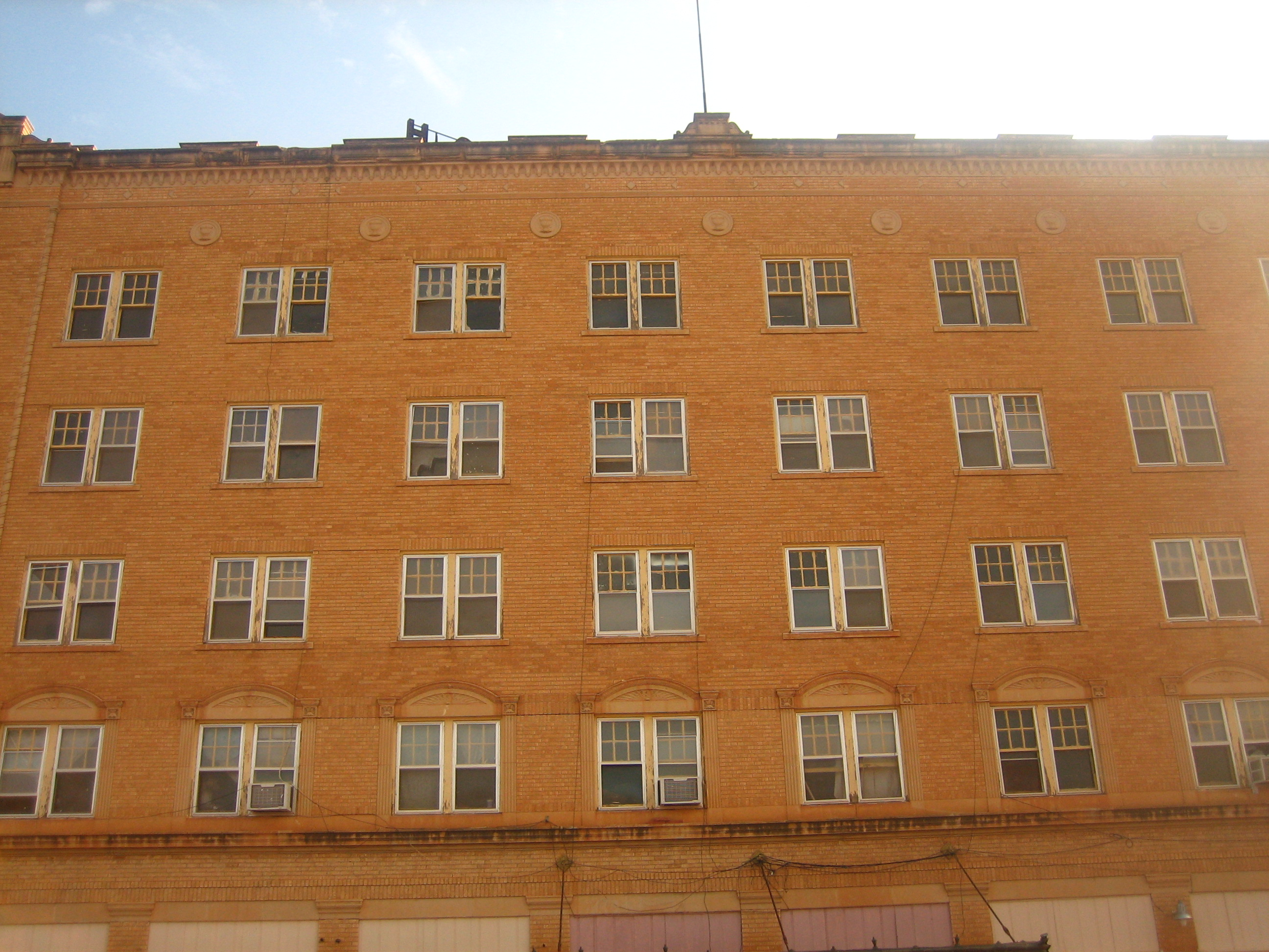 Childress Hotel